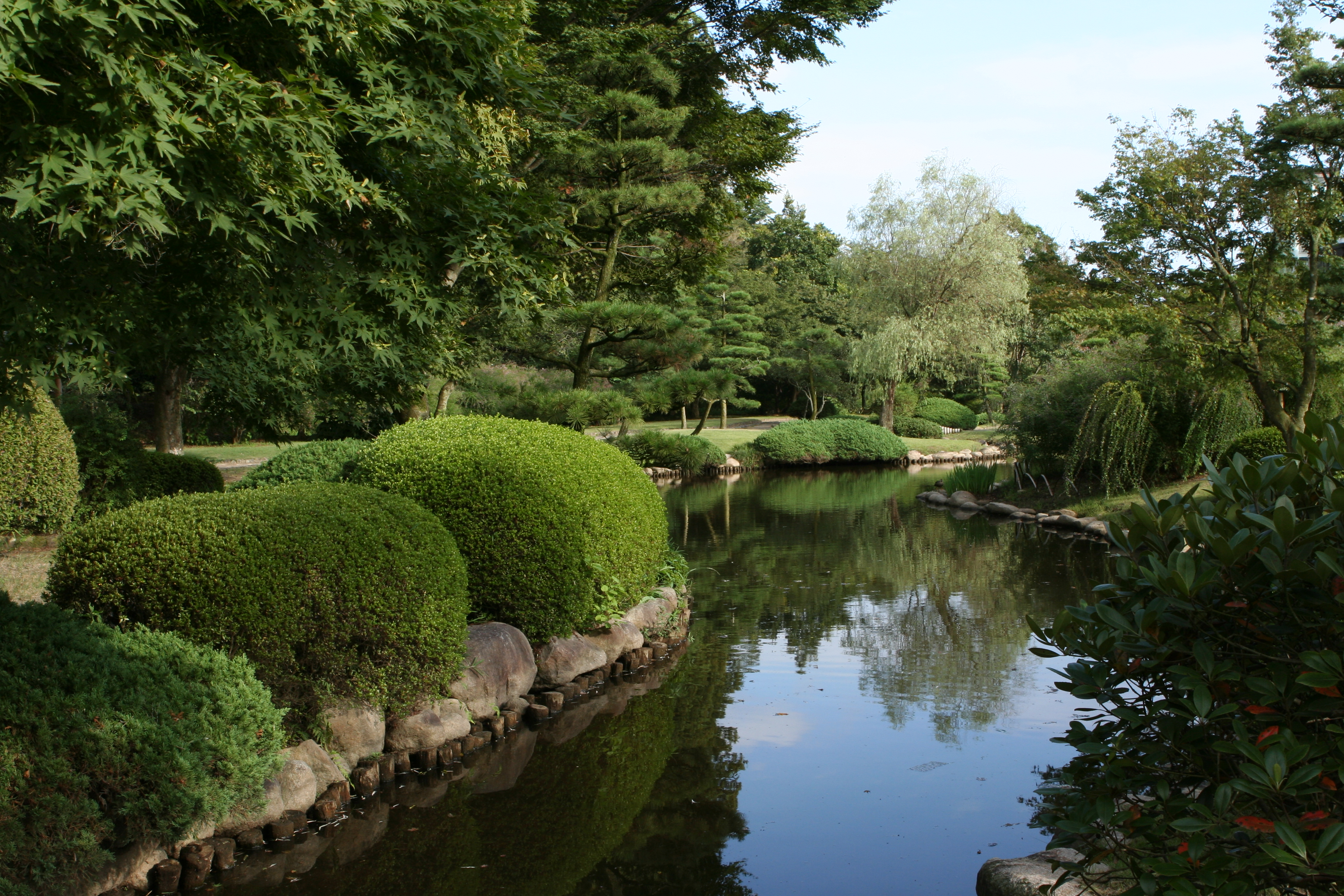 Kairakuen garden in Mito, Ibaraki pref., Japan.